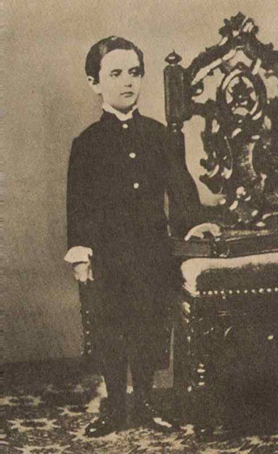 Potho of Theodor Herzl at the age of 5 in the family house in Budapest.